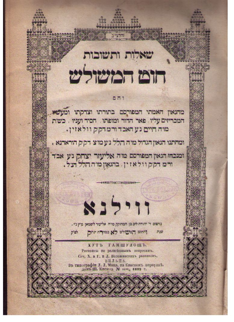 Book Hut Hameshulash 1st ed.